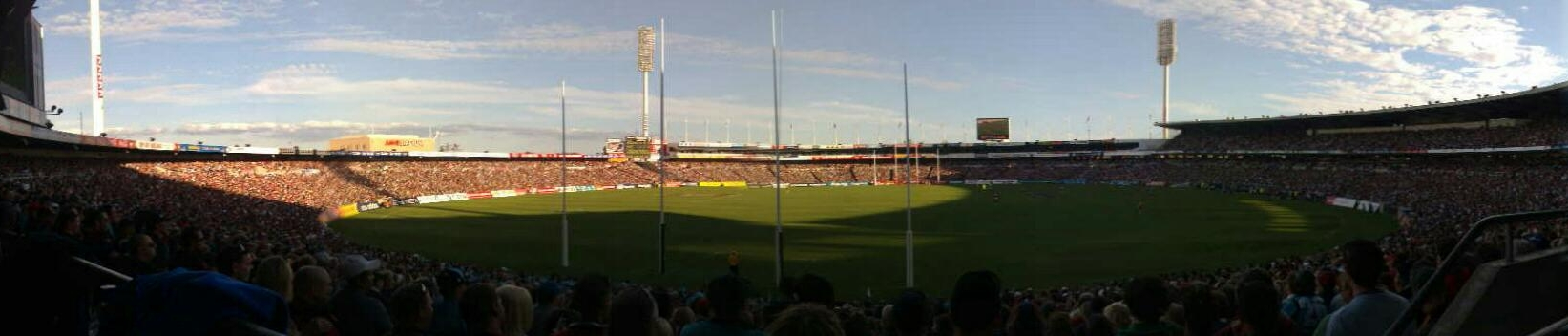 Aami stadium during showdown